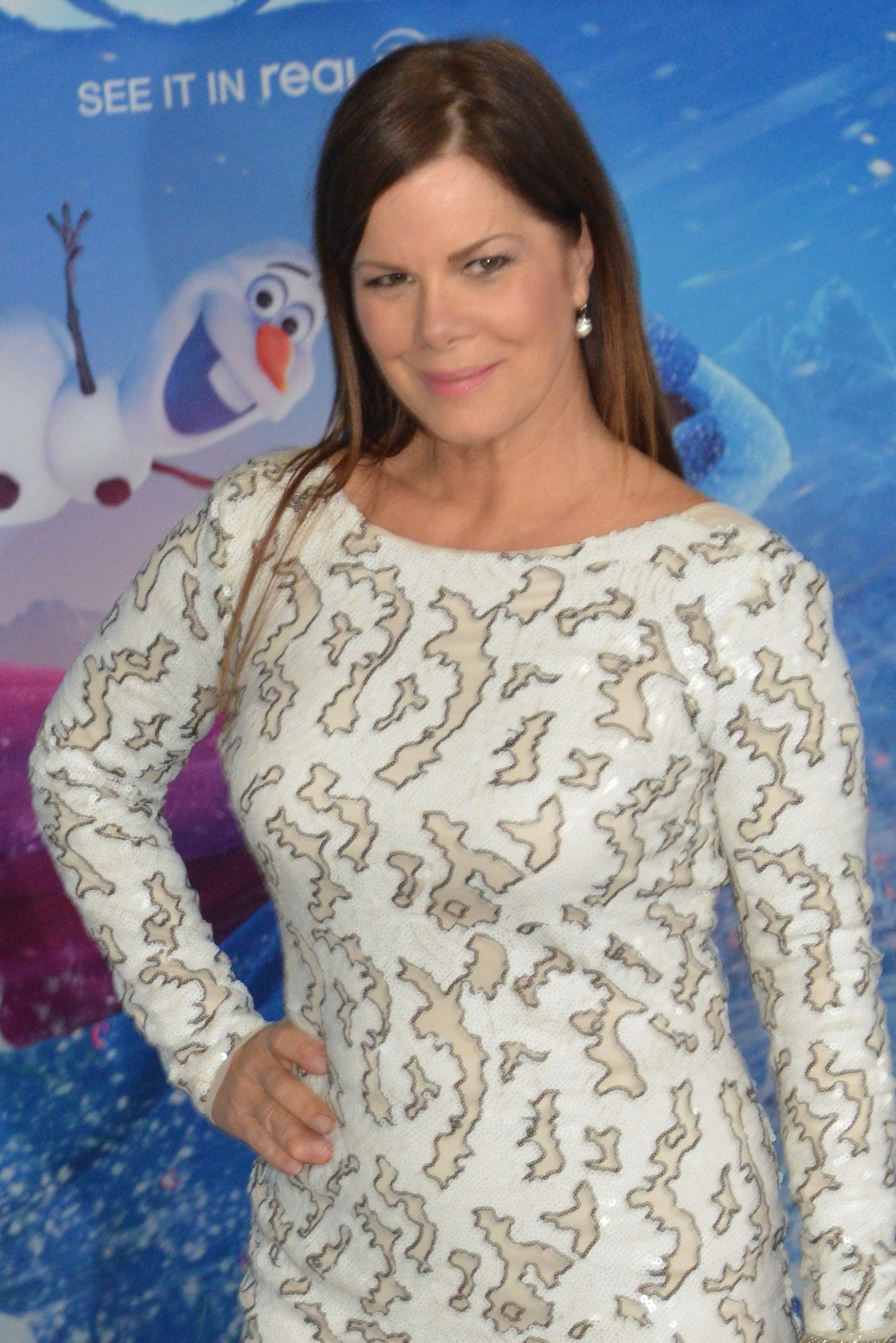 Flickr Description: Marica Gay Harden - DSC_0908 Marcia Gay Harden at the premiere of Frozen (2013 film).